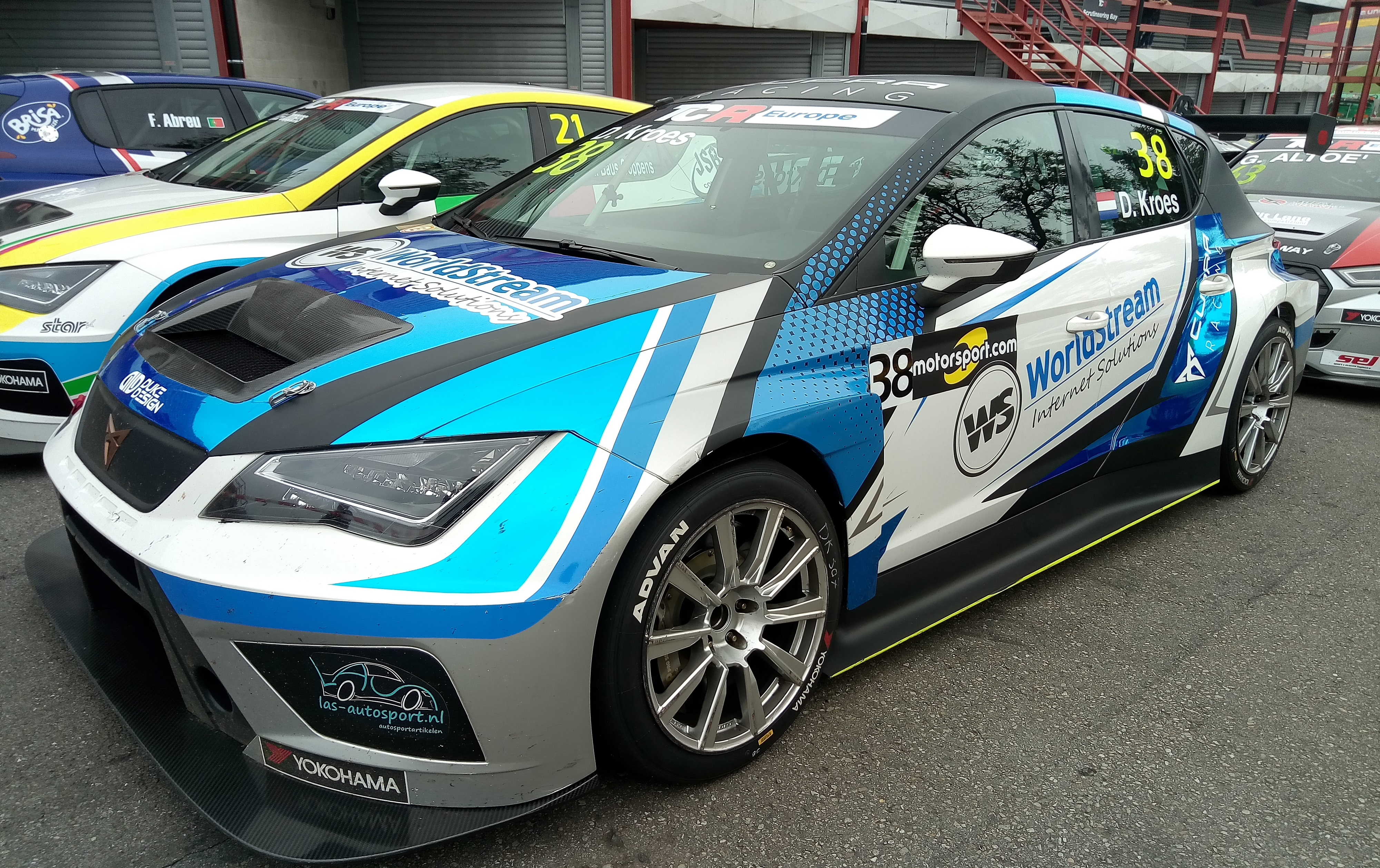 Danny Kroes (PCR Sport) at the 2018 TCR Europe Series round at Spa-Francorchamps.